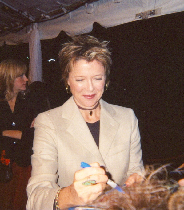 Actress Annette Bening at the 2005 Toronto International Film Festival.